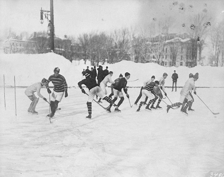 Hockey match at McGill University, 1901 / Montreal, Quebec - Notman Canada Views